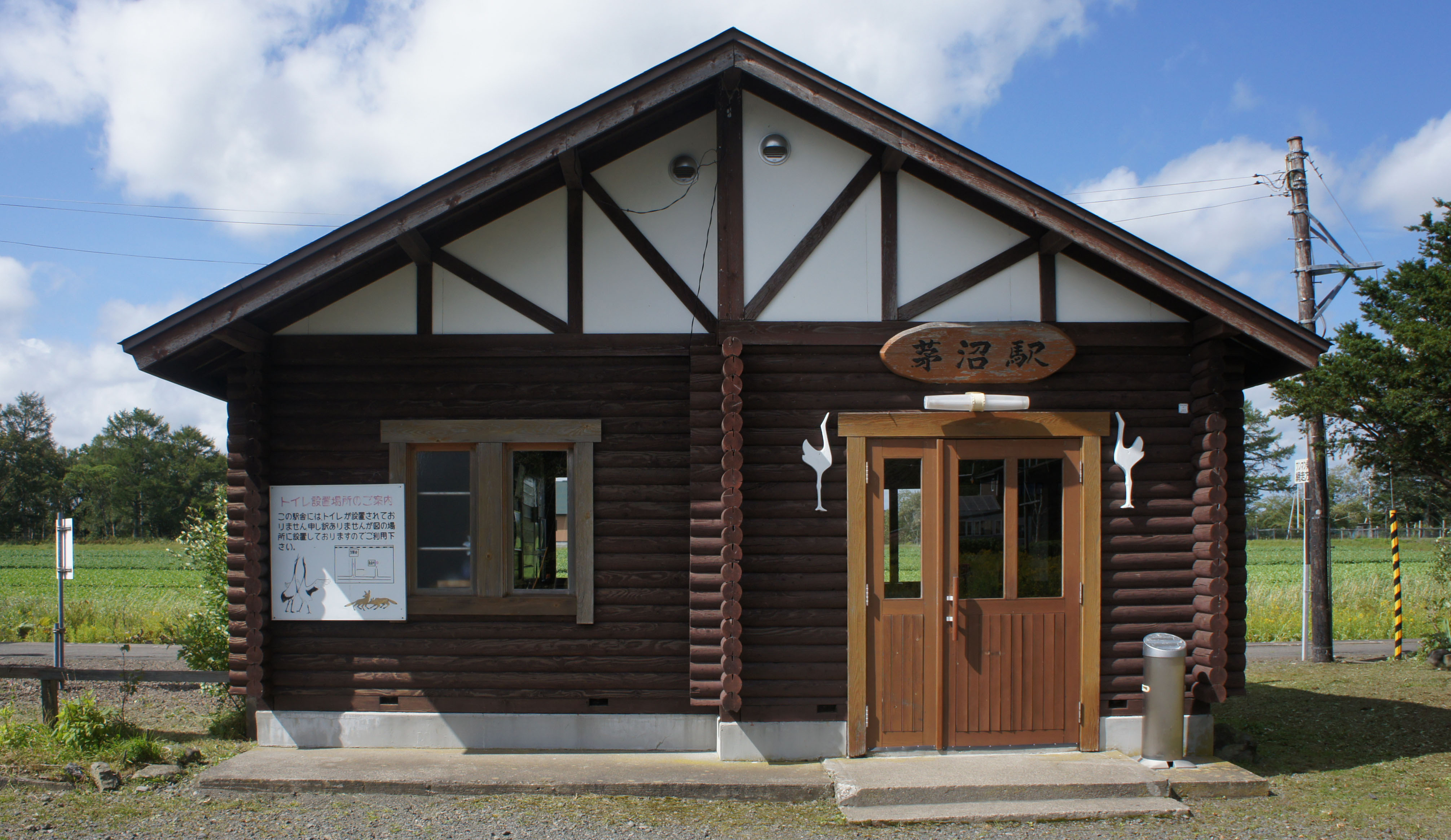 Station building of JR Senmo-Main-Line Kayanuma Station